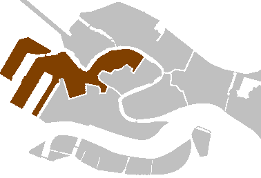 districts of Venice - Santa Croce